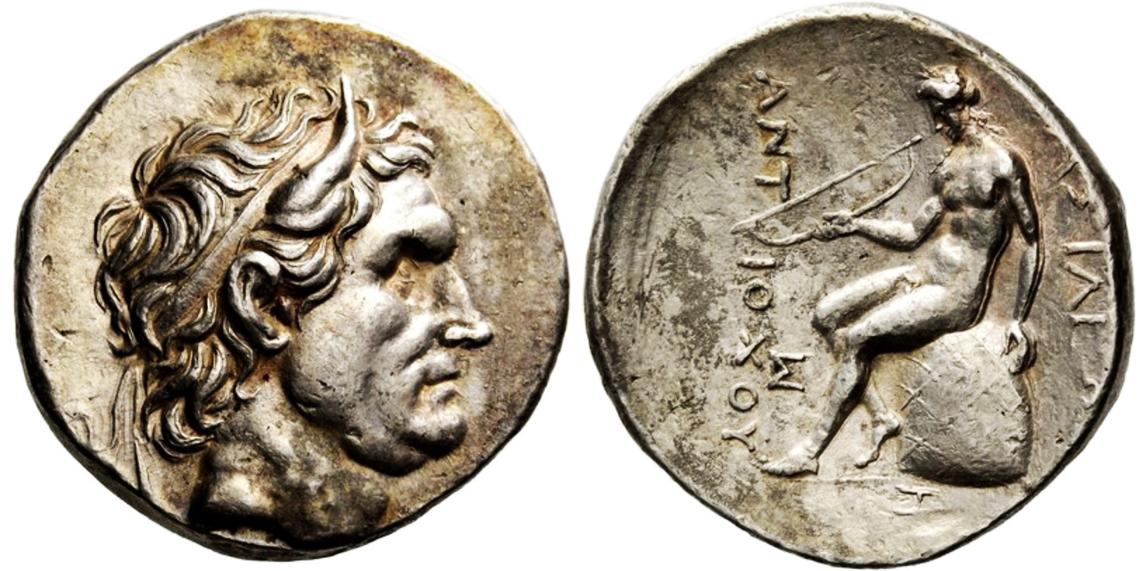 Seleucus I portrait on Antiochus I tetradrachm (17.09 g)[1] • Obverse: Diadem head of Seleucus I with bull’s horn; • Reverse: Apollo with bow seating on omphalos. ↑ Sear, David R. (1979). Greek Coins and Their Values . Volume II: Asia & Africa (pp. 640, coin # 6869). Seaby Ltd., London. ISBN 0 900652 50 0